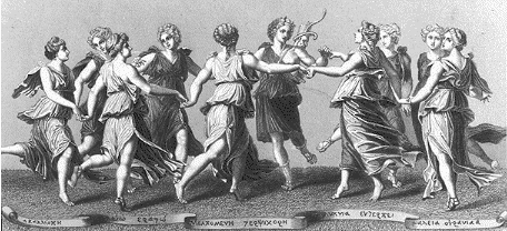 "Apollo Dancing with the Muses" by Francesco Bartolozzi (1725-1815)